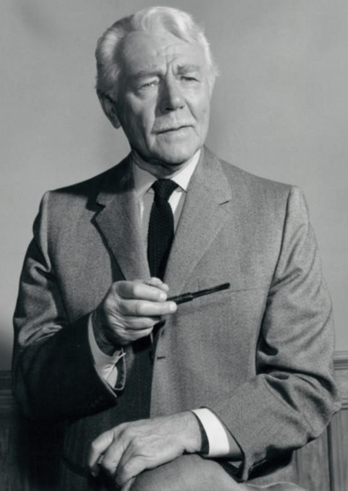 Publicity photo of actor Charles Ruggles from his guest appearance on the television program Dick Powell Theatre.